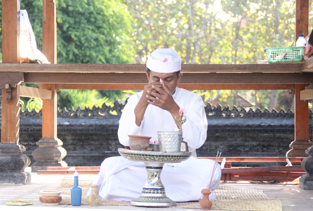 the Balinese priest is preparing for the ceremony